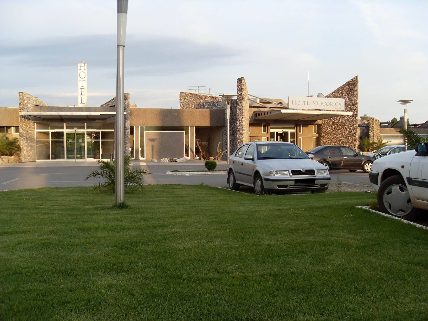 The hotel Podgorica in Podgorica/Montenegro from the front side Crnogorski: Hotel Podgorica u Podgorici.